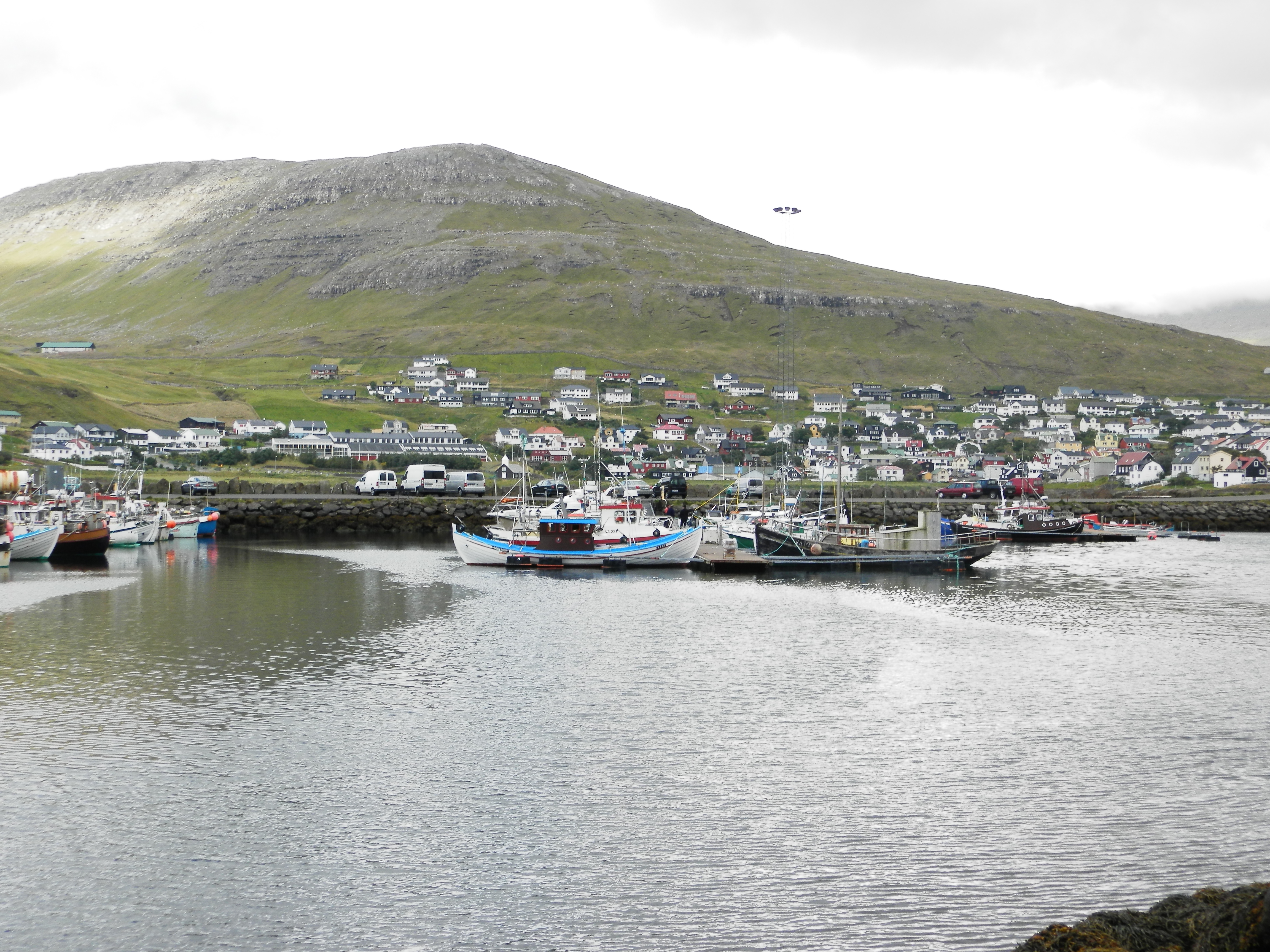 The boat harbour of Sørvágur, Faroe Islands on 30 August 2014.